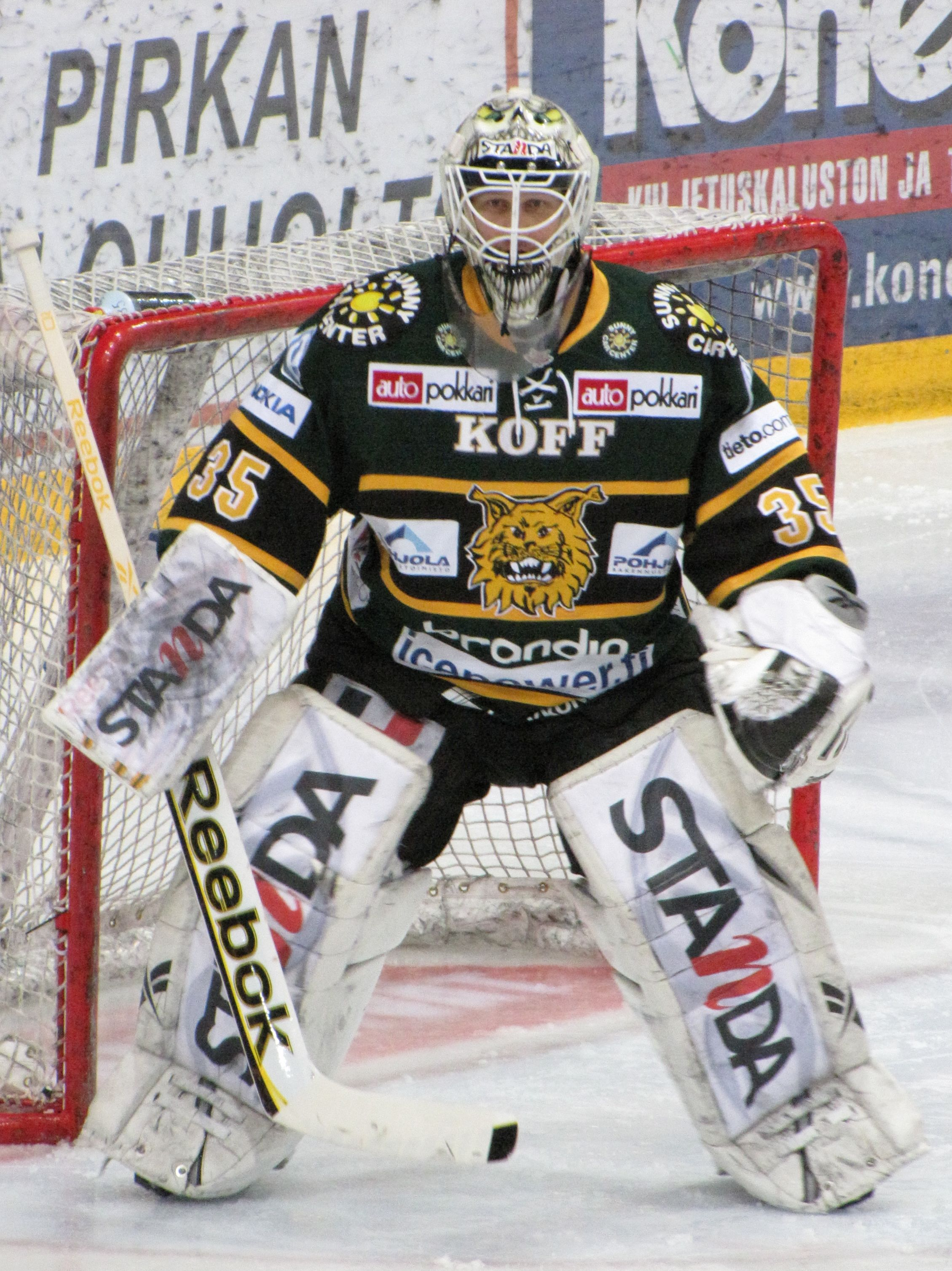 Finnish ice hockey goaltender Vesa Toskala playing for Tampere Ilves in a Finnish SM-liiga relegation game in April, 2012.